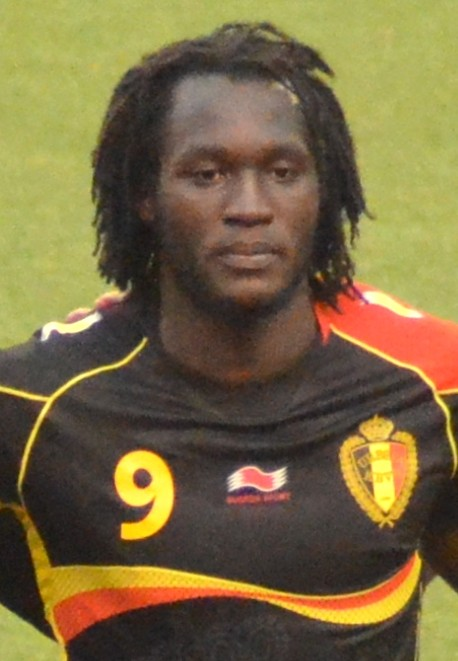 Taken at FirstEnergy Stadium Home of the Cleveland Browns